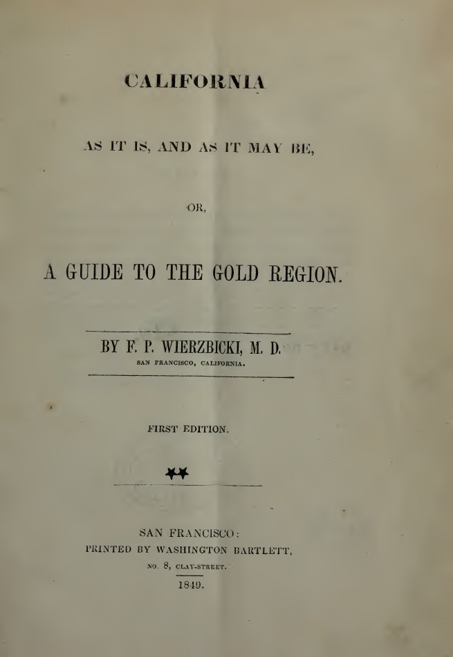 Wierzbicki, Felix Paul, 1815-1860 California As It Is, and As It May Be; or, A Guide to the Gold Region.... First Edition. San Francisco: Printed by Washington Bartlett, 1849.